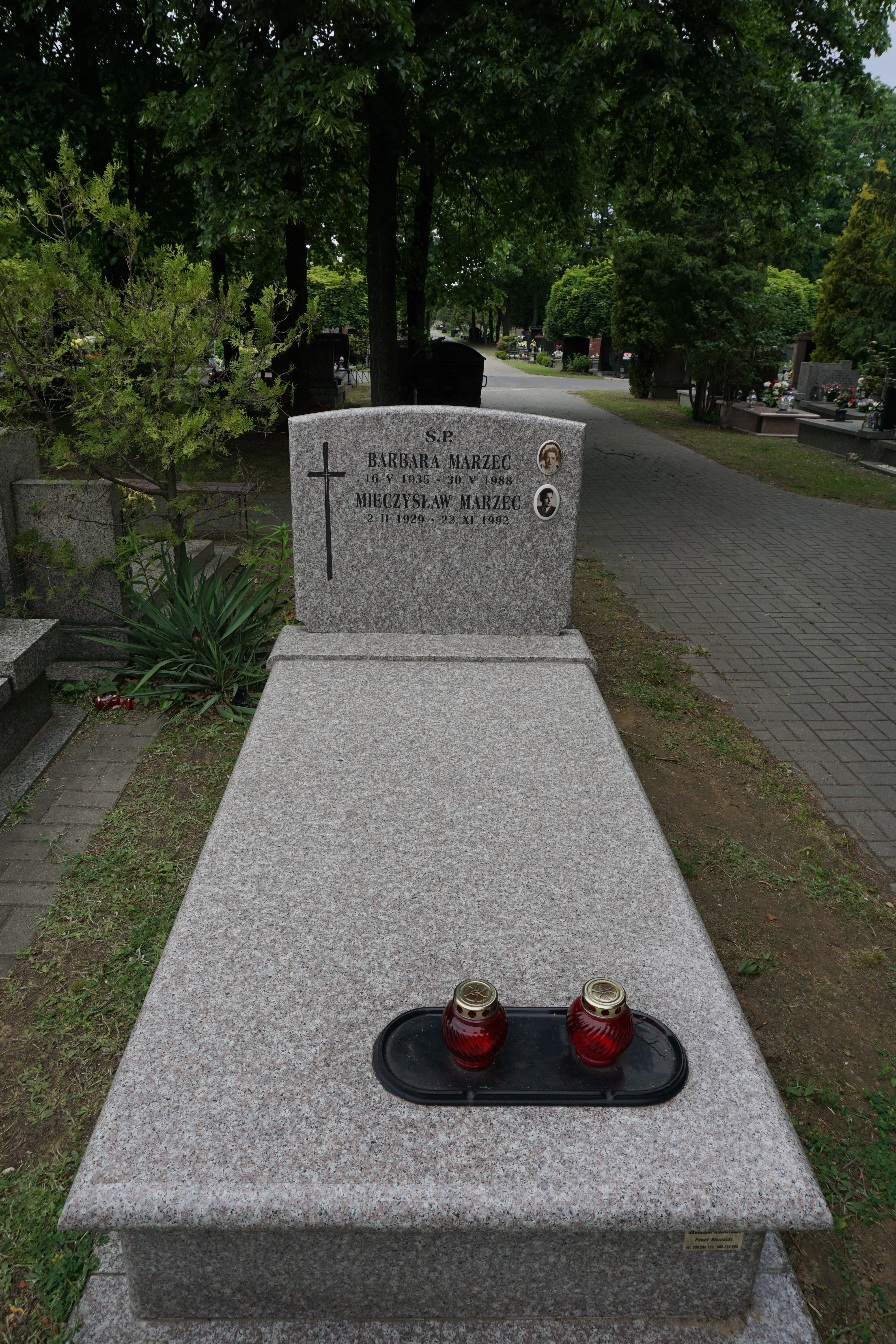 The grave of Mieczysław Marzec at the North Municipal Cemetery in Warsaw (section E-IX-2, row 2, grave 1)